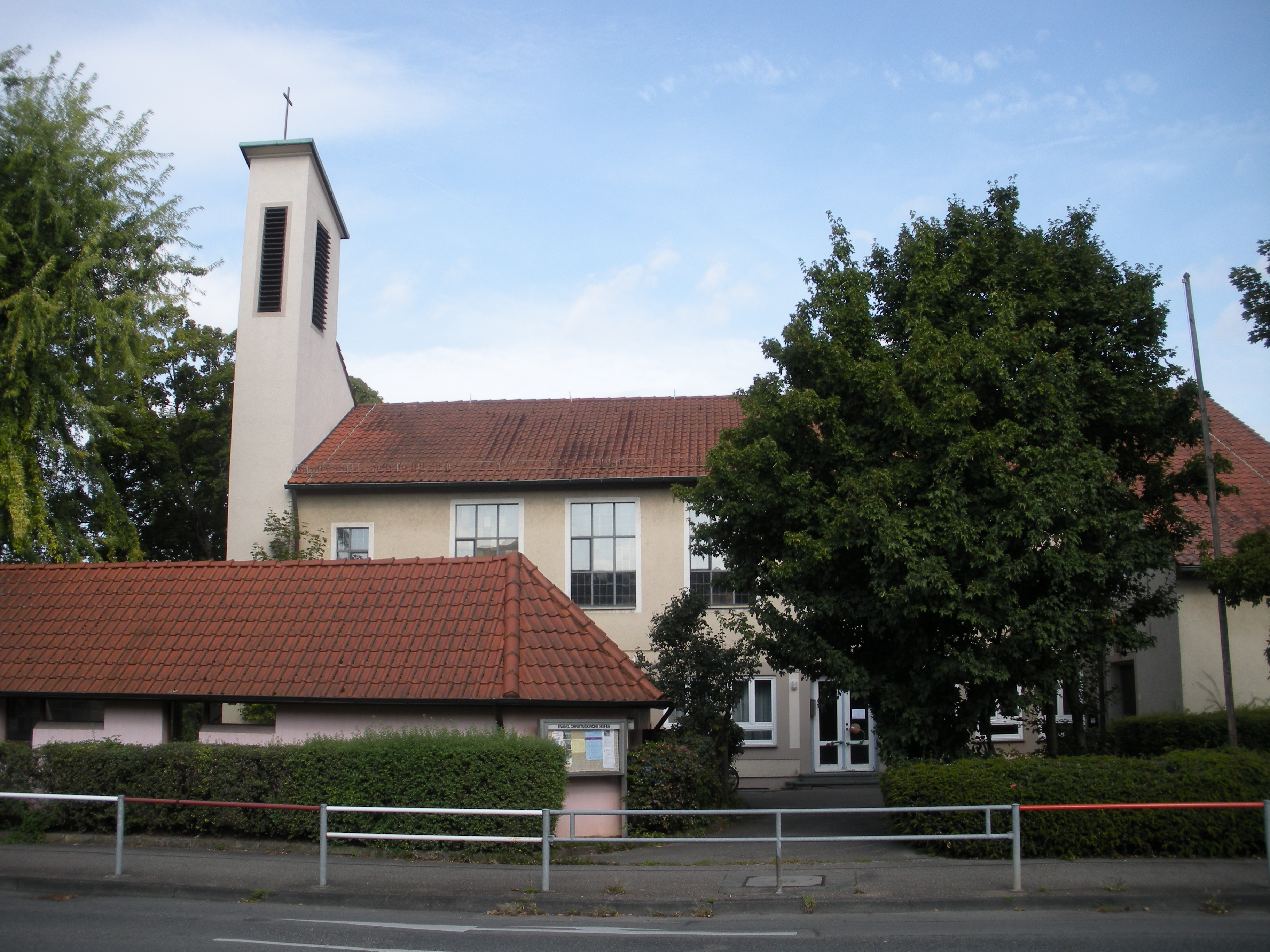 Protestant Church of Christ in Stuttgart-Hofen